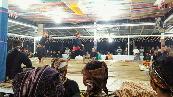 Expression error: Unrecognized word "pertunjukan".